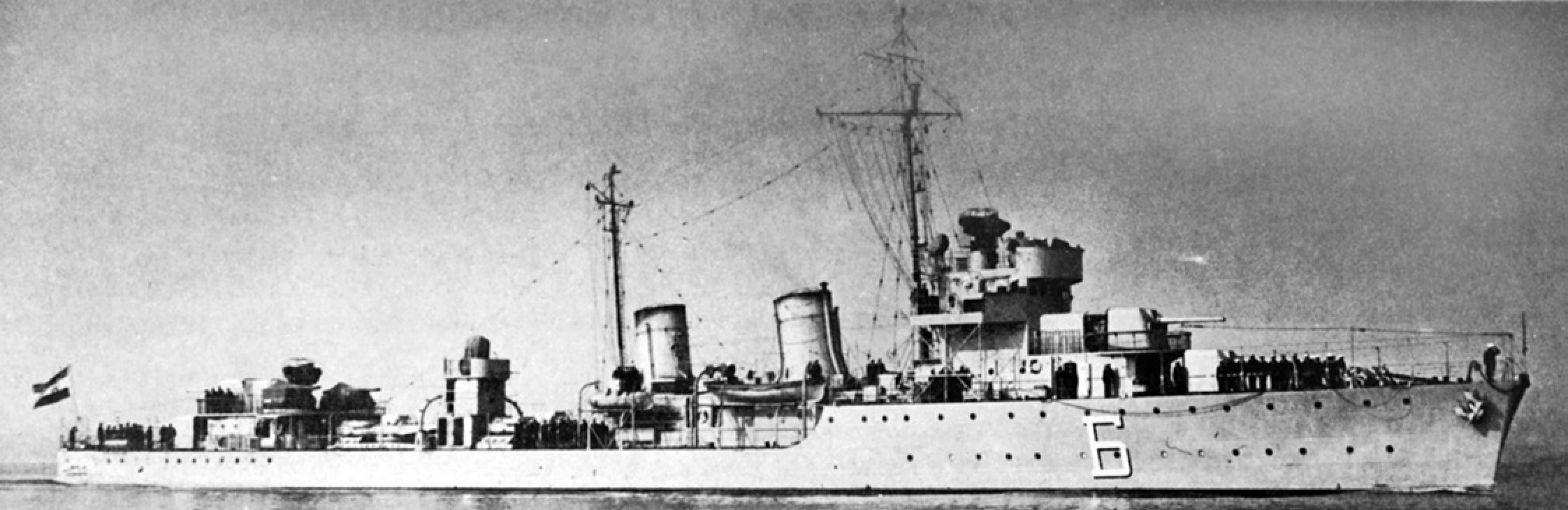 Yugoslavian destroyer Beograd 1939 Српски (ћирилица): Југословенски разарач Београд 1939. године.